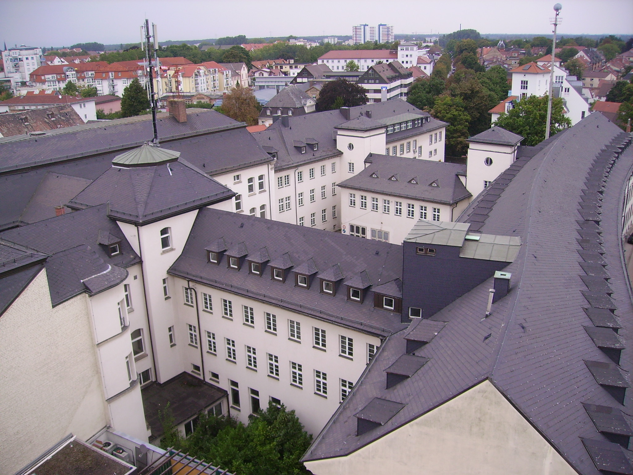 Altpörtel city gate in Speyer, Germany